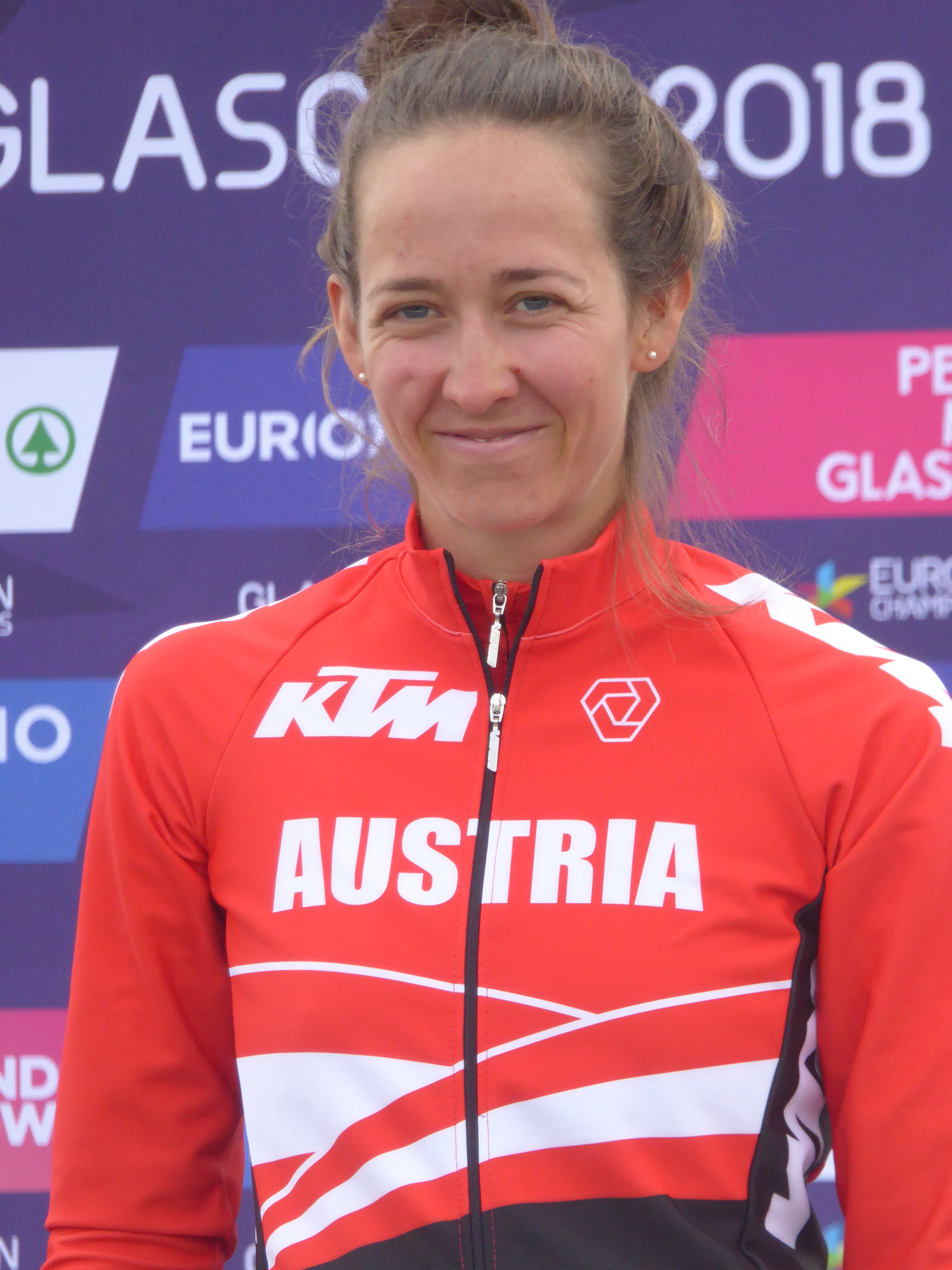 Sarah Rijkes (Austria), prior to the women's road race at the 2018 UEC European Road Cycling Championships in Glasgow.